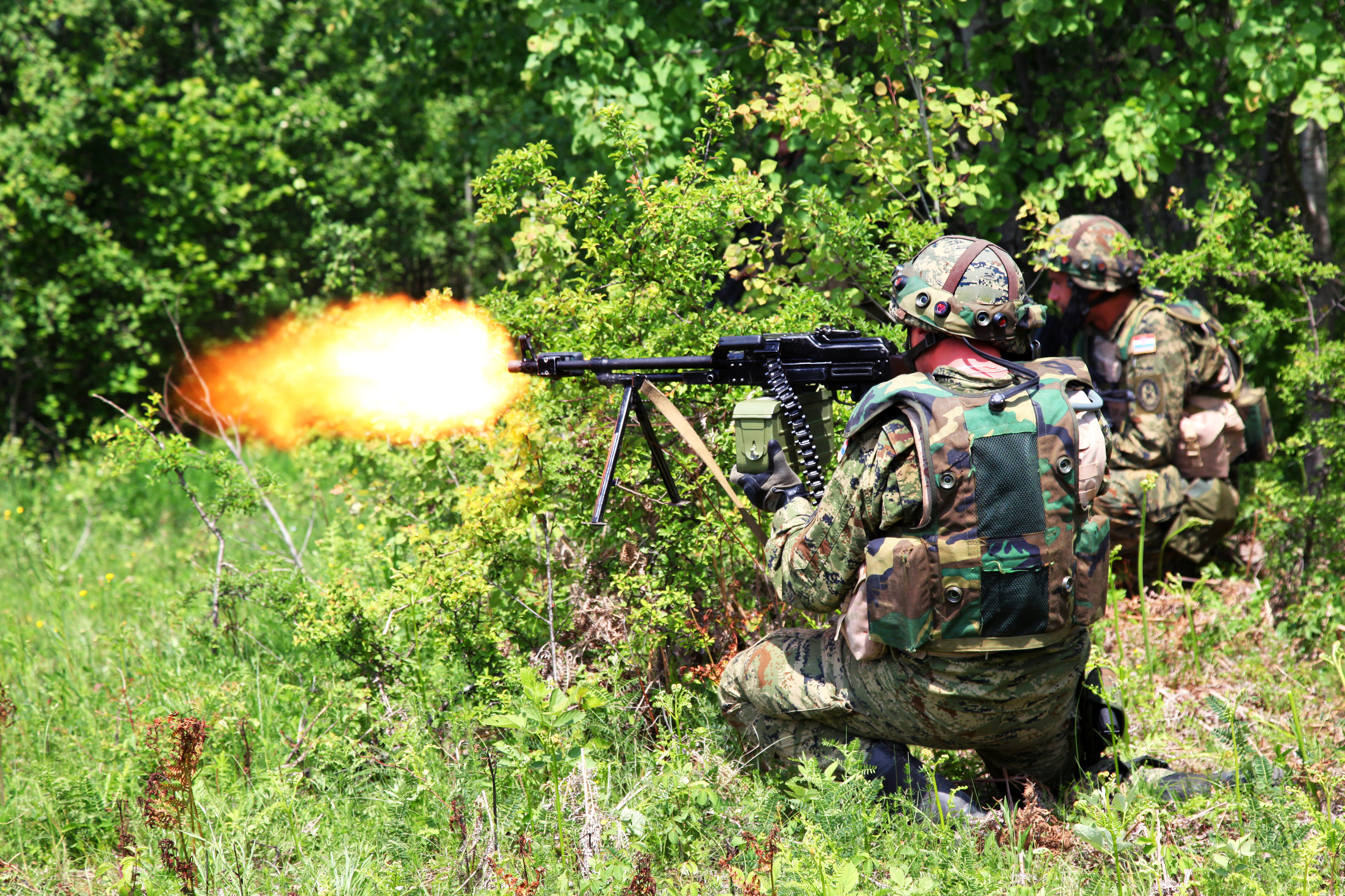 Croatian soldiers return fire after encountering contact from the opposing force as they conduct a movement to contact exercise during the Immediate Response 2012 training exercise in Slunj, Croatia, May 29, 2012.